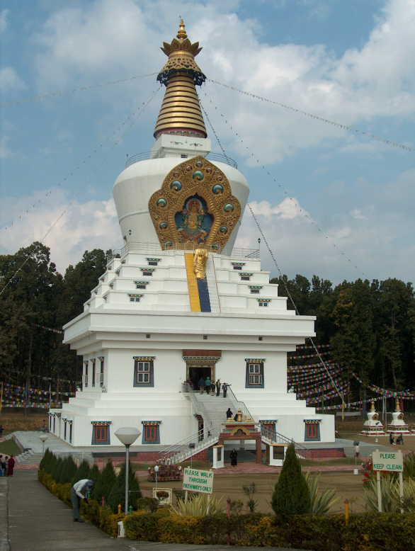 The great stupa at Og Min Ogyen Mindroling Monastery in Dehradun, India. Taken by me, Teemu Kiiski in December 2005.